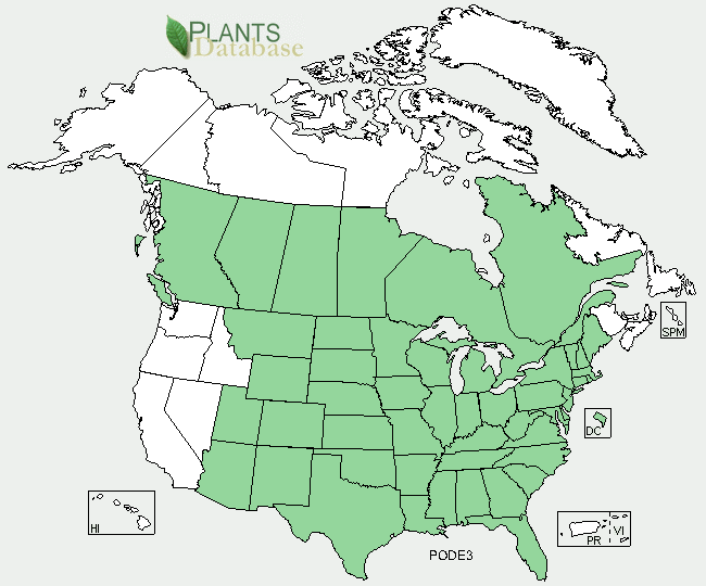 Distribution Map of the Eastern Cottonwood